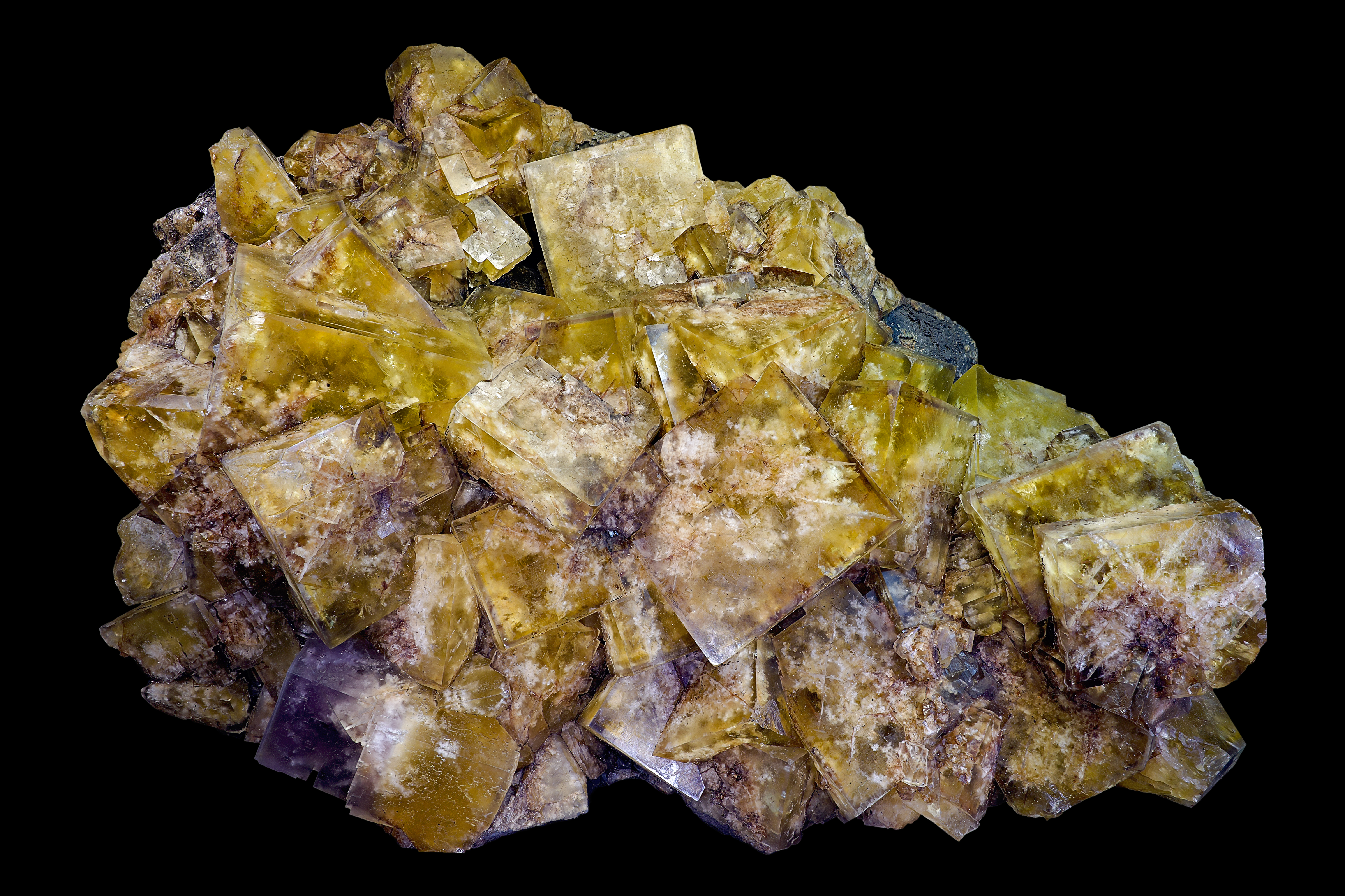 Fluorite Locality: Peyrebrune mine, Réalmont, Tarn, Midi-Pyrénées, France Size: 47.5 x 32x 13.5 cm - 25 Kg